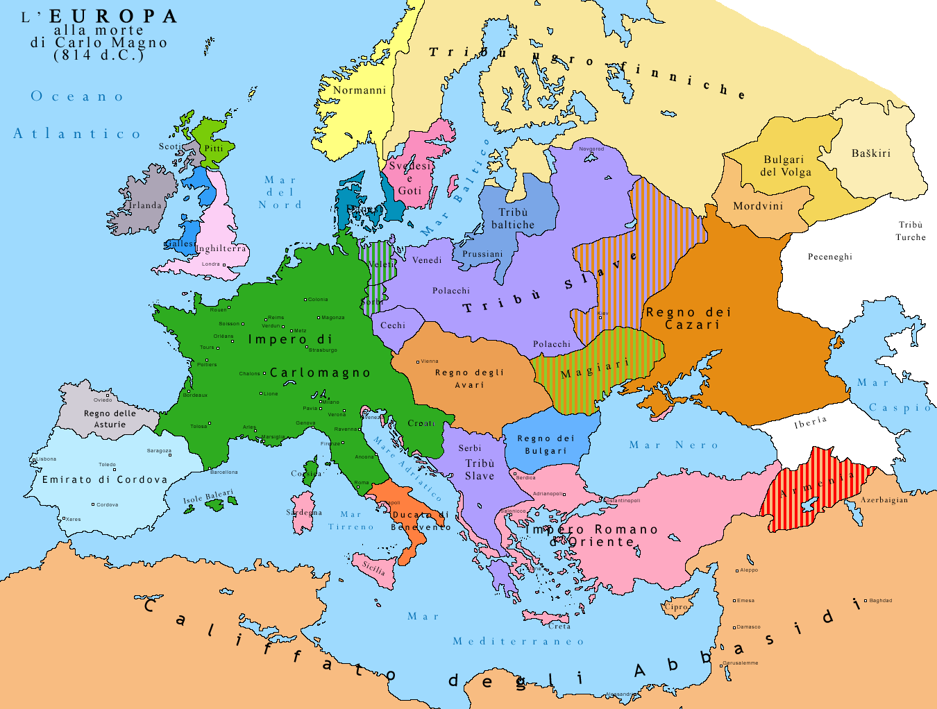 Map of Europe after the death of Charles the Great (814 AD, in Italian)